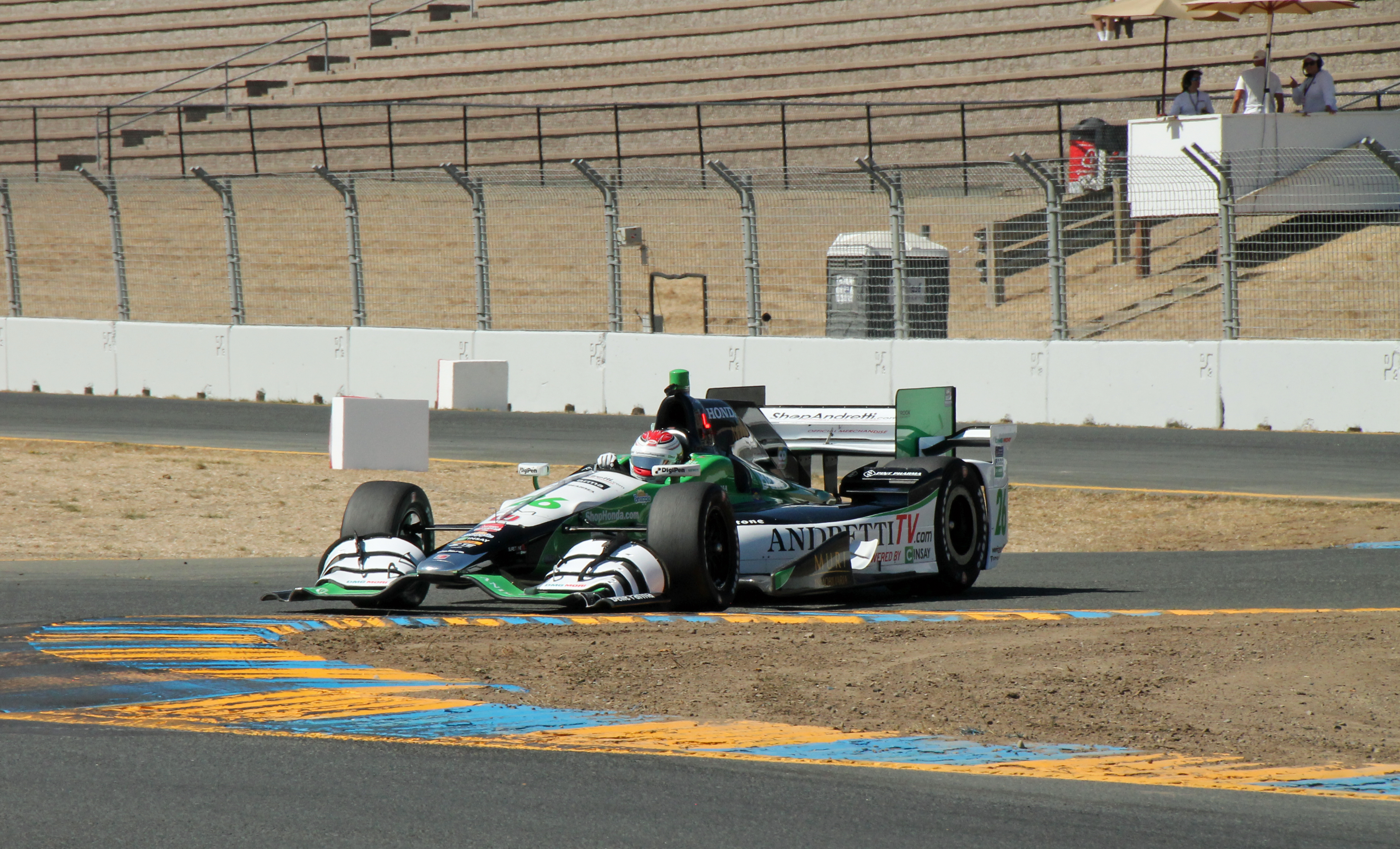 Carlos Munoz at the 2015 GoPro Grand Prix of Sonoma practice